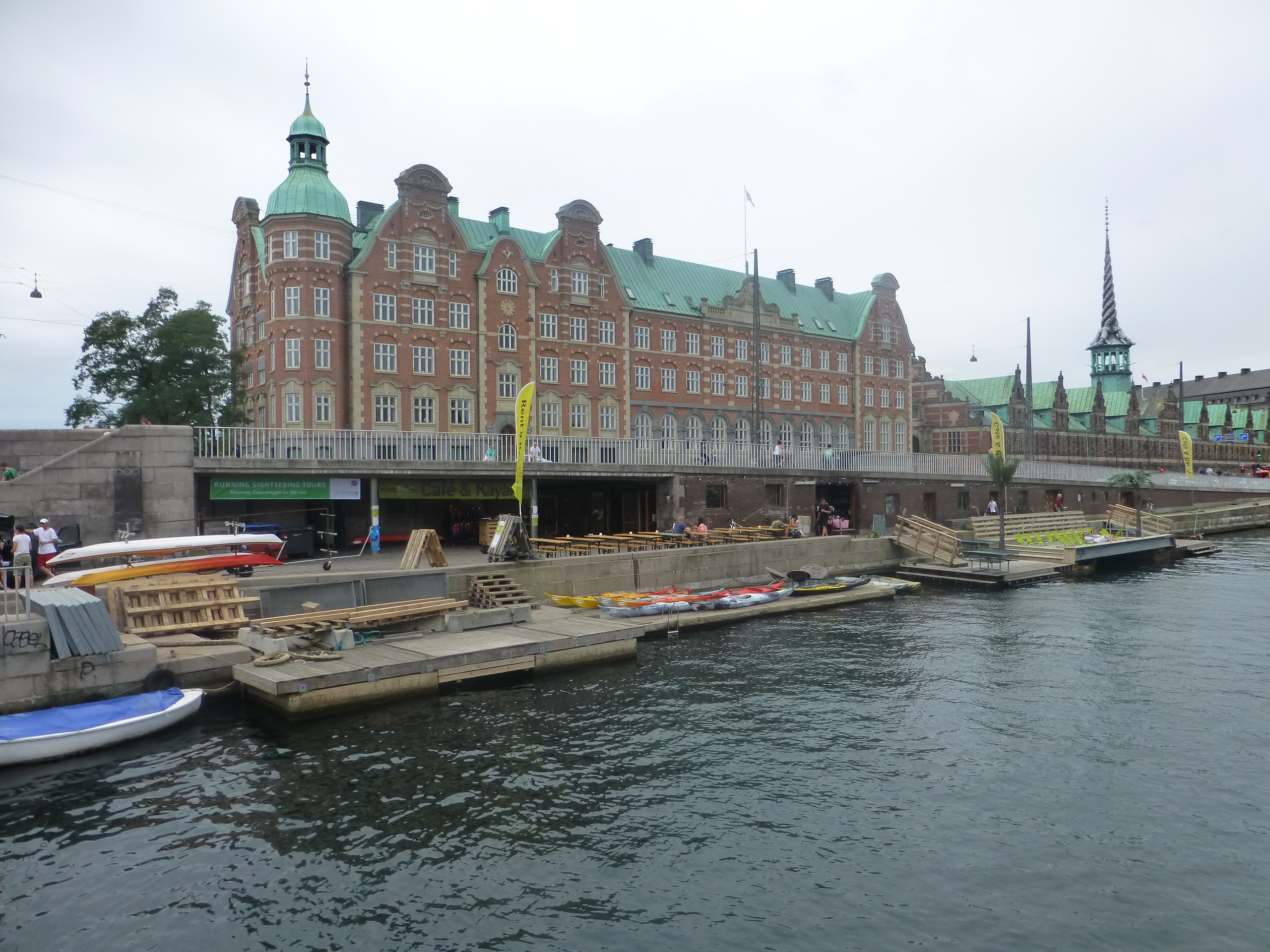 The wharf Børskaj at Børsgade and Slotsholmskanalen in Copenhagen.